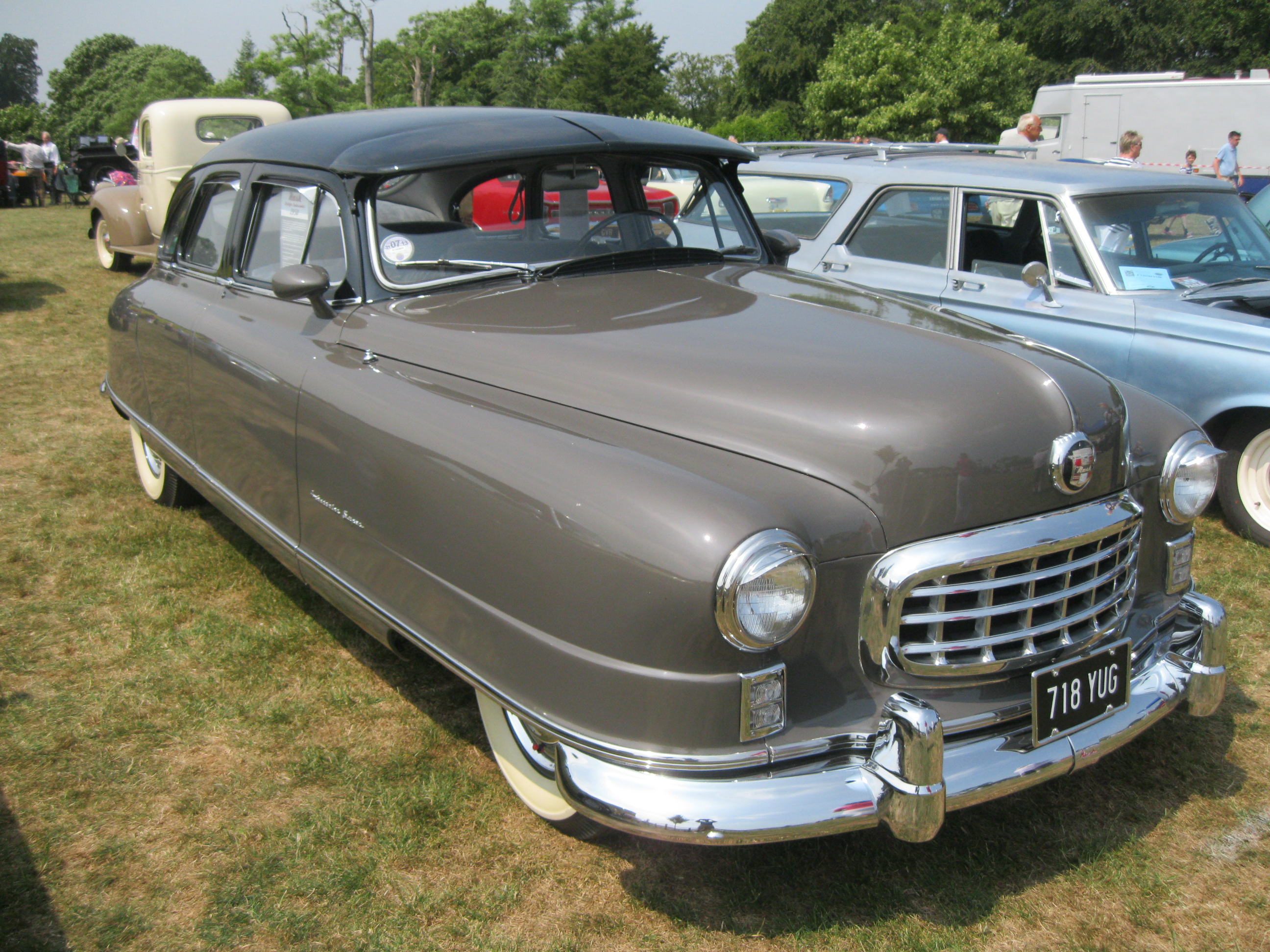 Stunning post-war U.S. streamliner spotted at the Sherborne Castle Classic Car Show on 21st July 2013.